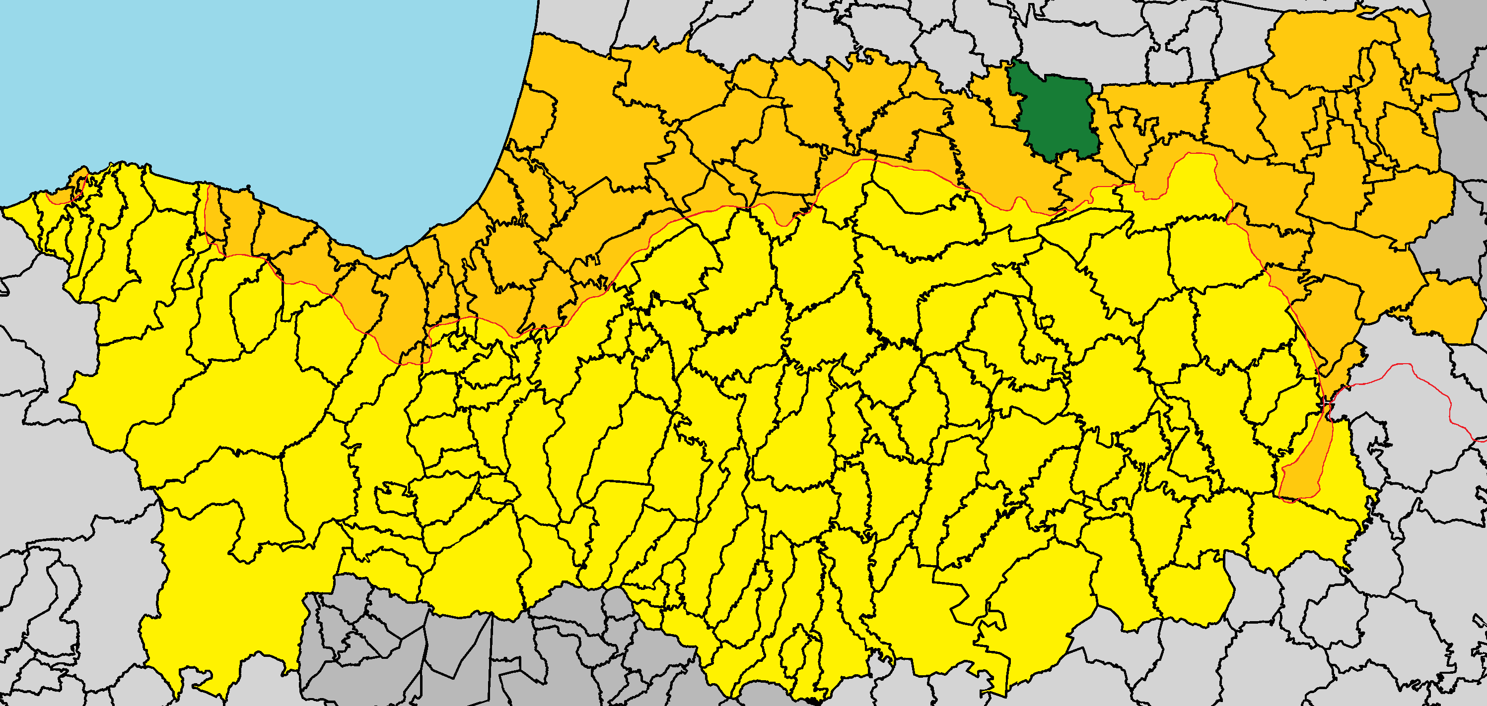 Gönyeli in Nicosia District (de jure).